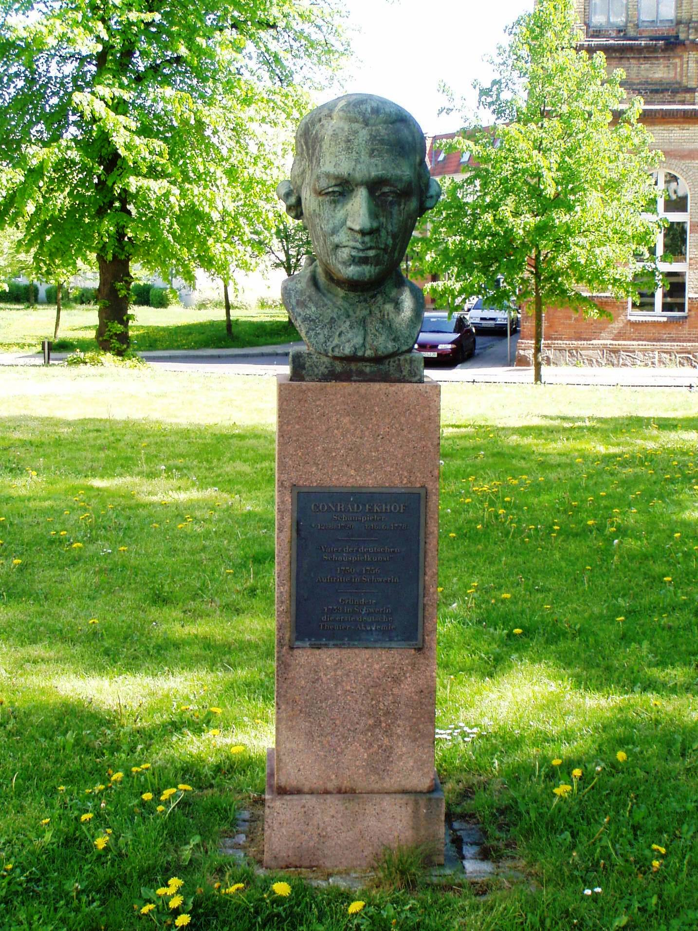 Memorial for Conrad Ekhof in Schwerin by Hans Kies